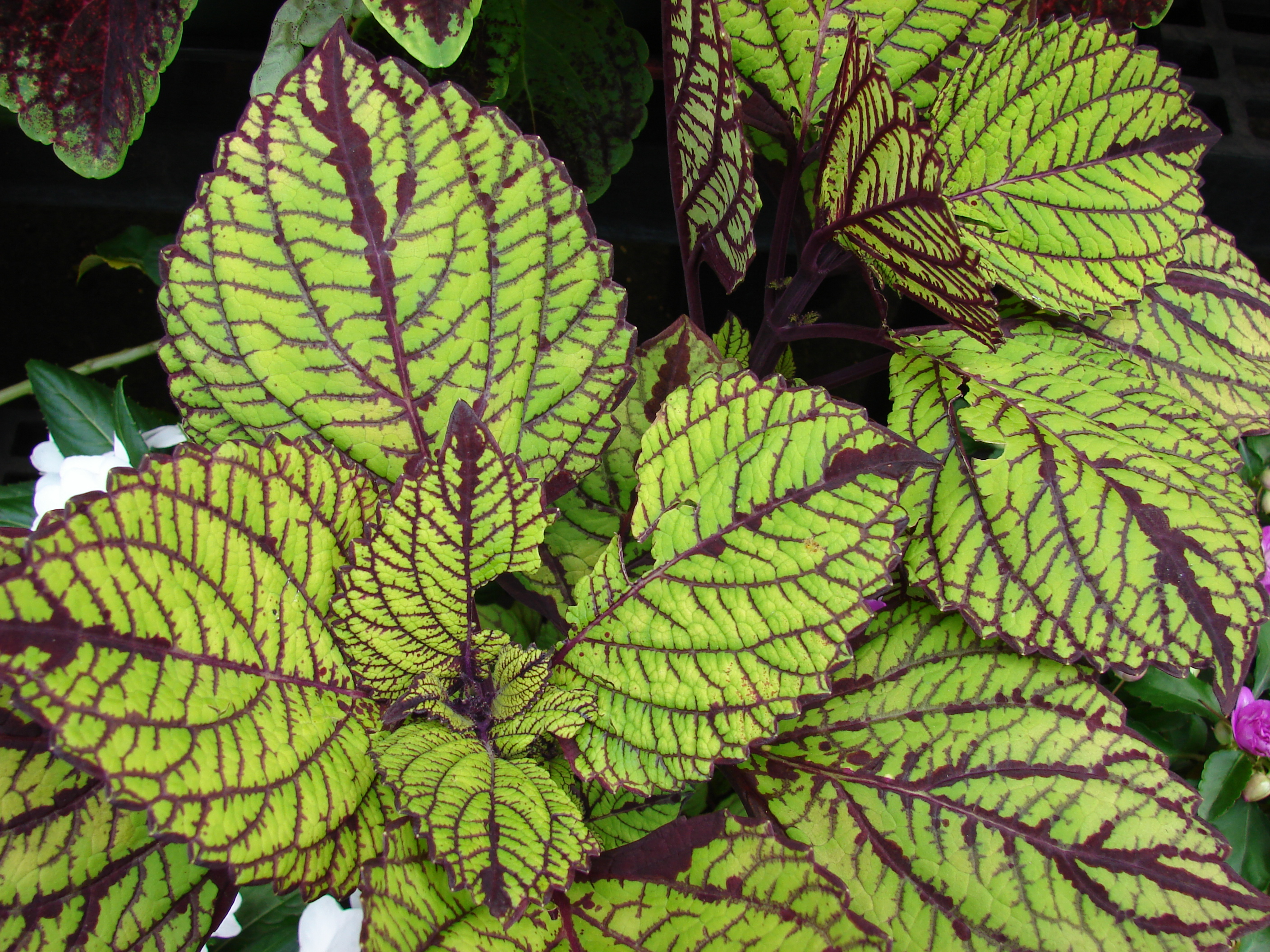 Solenostemon scutellarioides (leaves). Location: Maui, Kula Ace Hardware and Nursery